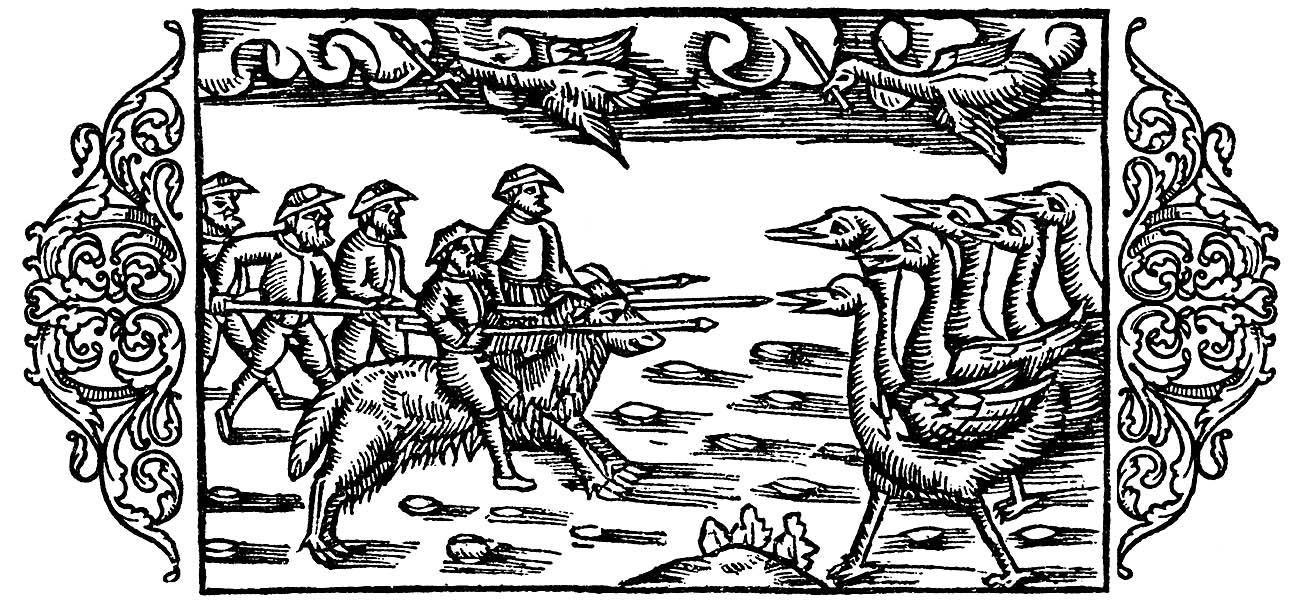 At top two cranes with candles in their beaks illustrating an old Swedish locution (tranan bär ljus i säng). The rest of the woodcut illustrates the old tale of the dwarfs of Greenland and their constant fights against hordes of cranes.